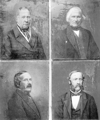 Founders of the factory Nydalens Compagnie in Oslo, Norway. Top left: Ole Gjerdrum; top right: Hans Gulbranson; bottom left: Adam Hiorth; bottom right: Oluf N. Roll. The factory was established in 1845. This picture was reproduced in a jubilee book in 1945.